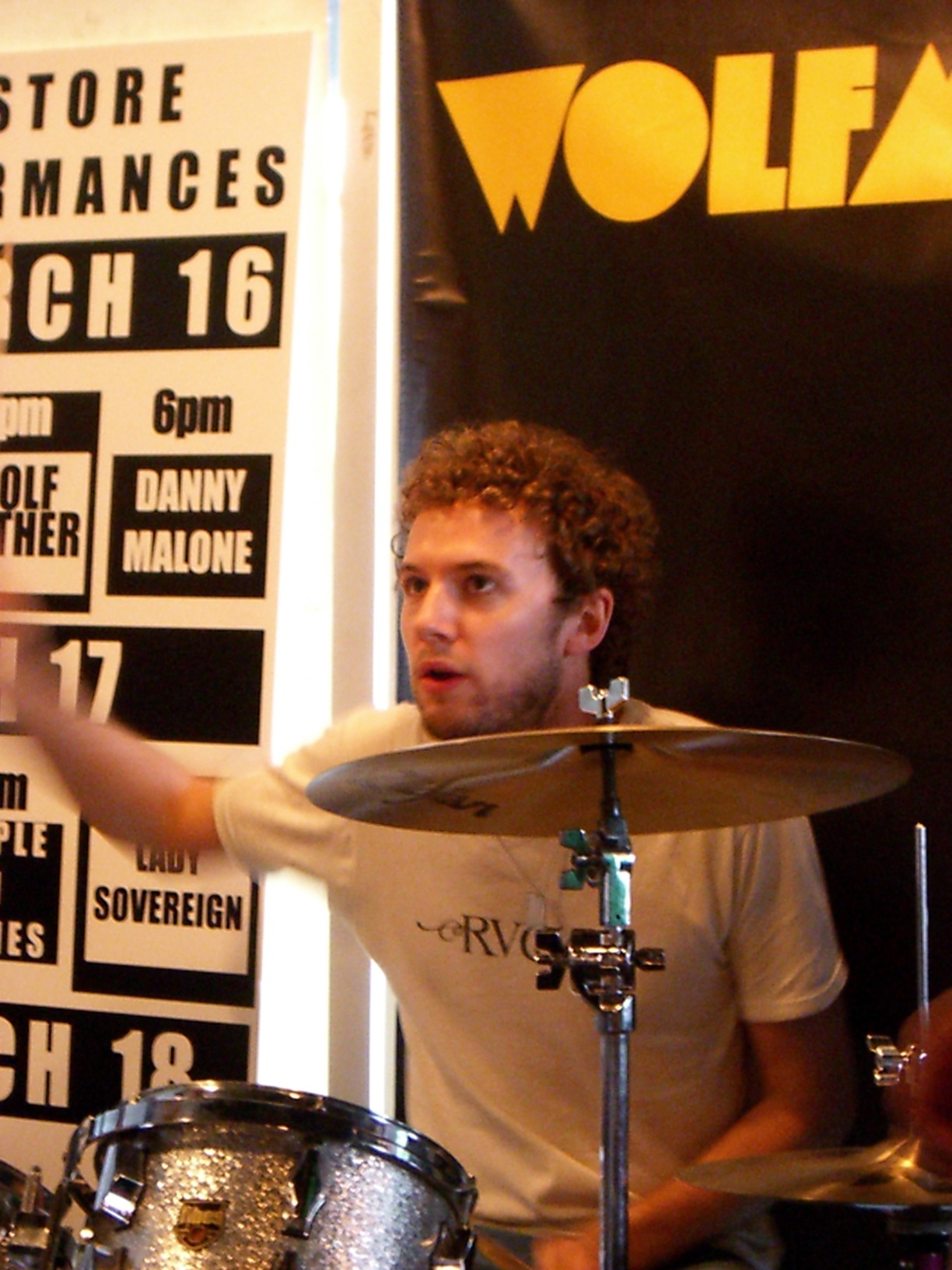 Wolfmother at SXSW 2006